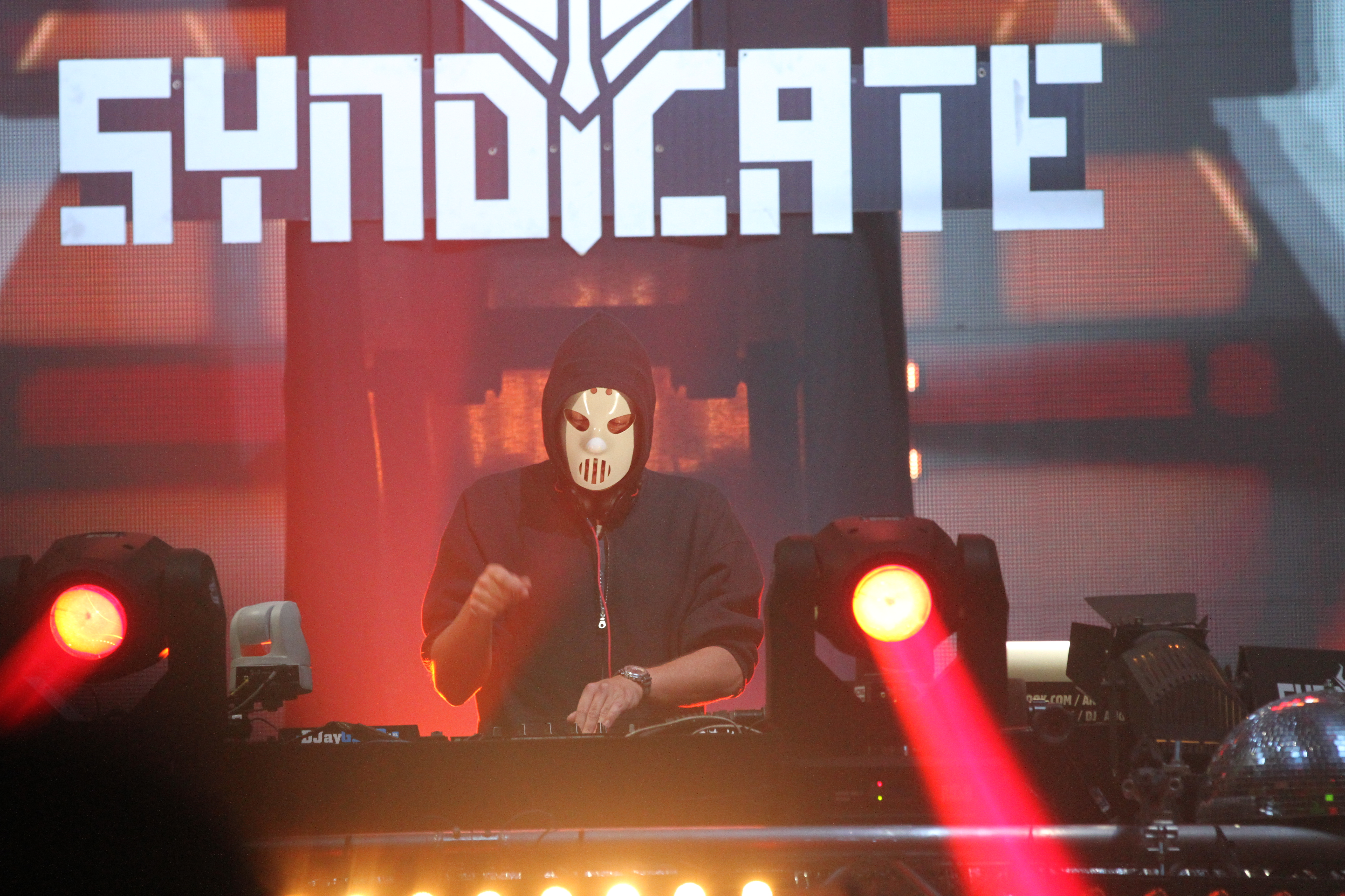 Angerfist live on stage at Syndicate 2013